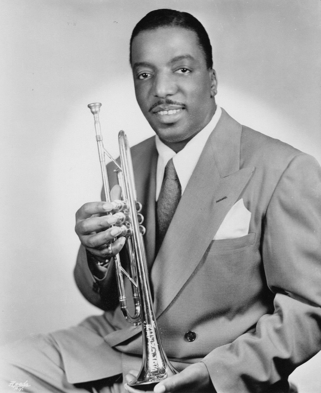 Photo of jazz musician and trumpeter Erskine Hawkins.